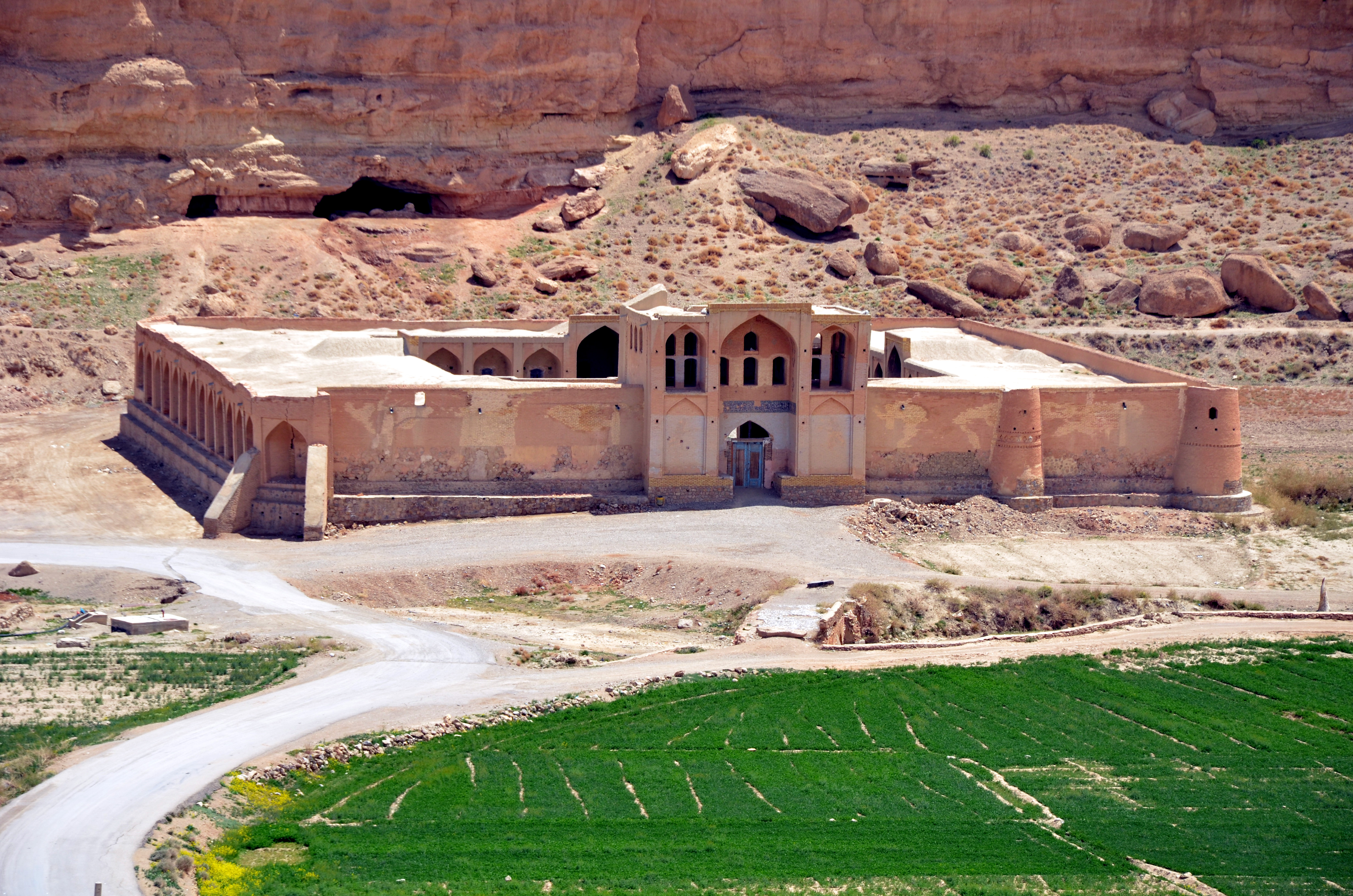 Izadkhast Old Caravanserai, Fars Province, Iran